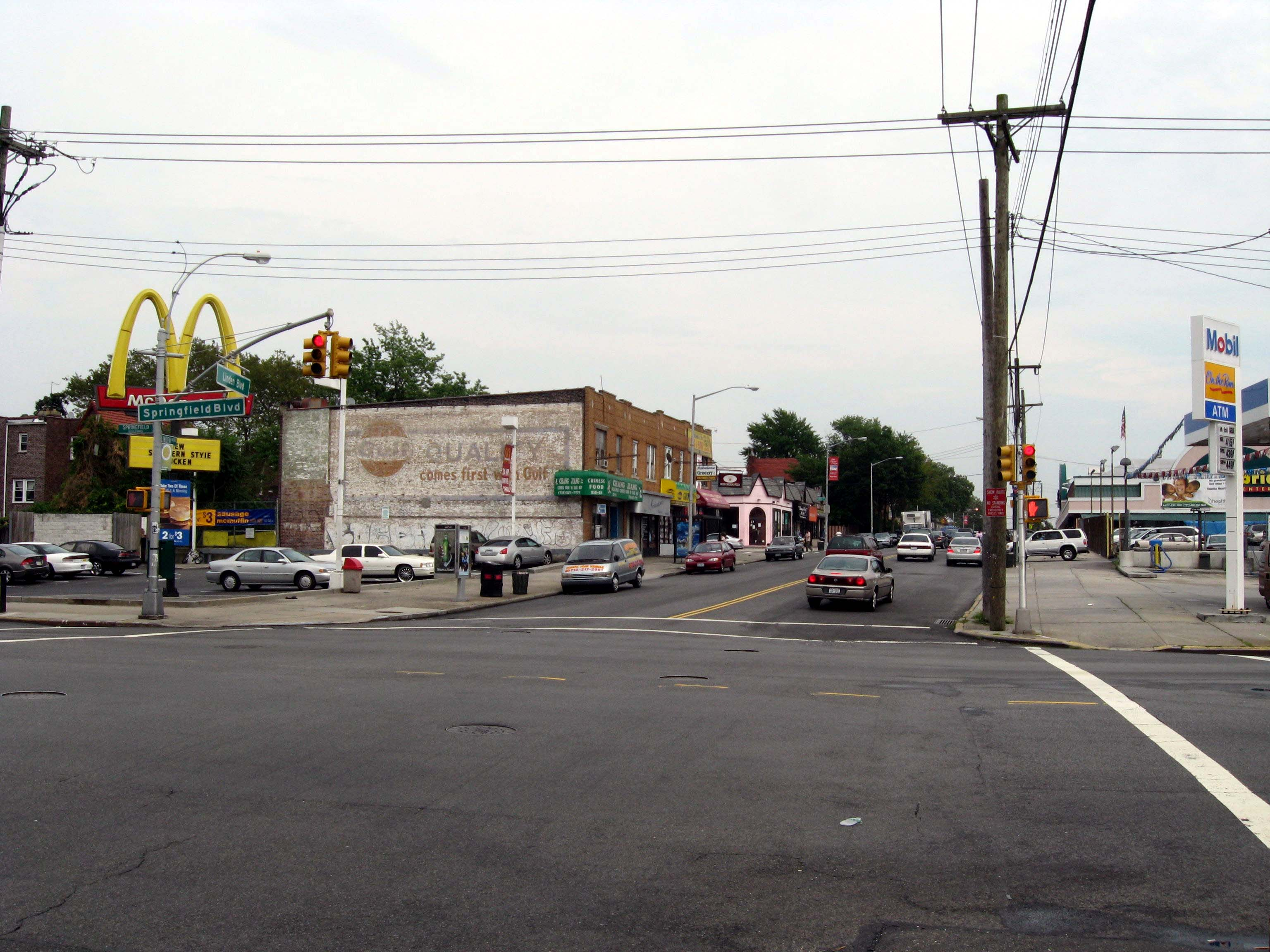 Looking east across Springfield Boulevard along Linden Boulevard on a rainy midday in Cambria Heights. ZIP 11411.